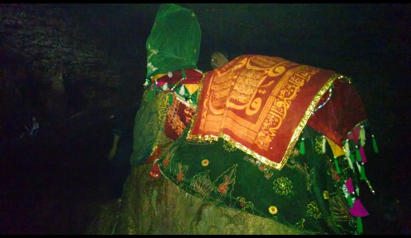 Camel of Ali, Lahoot lamakan